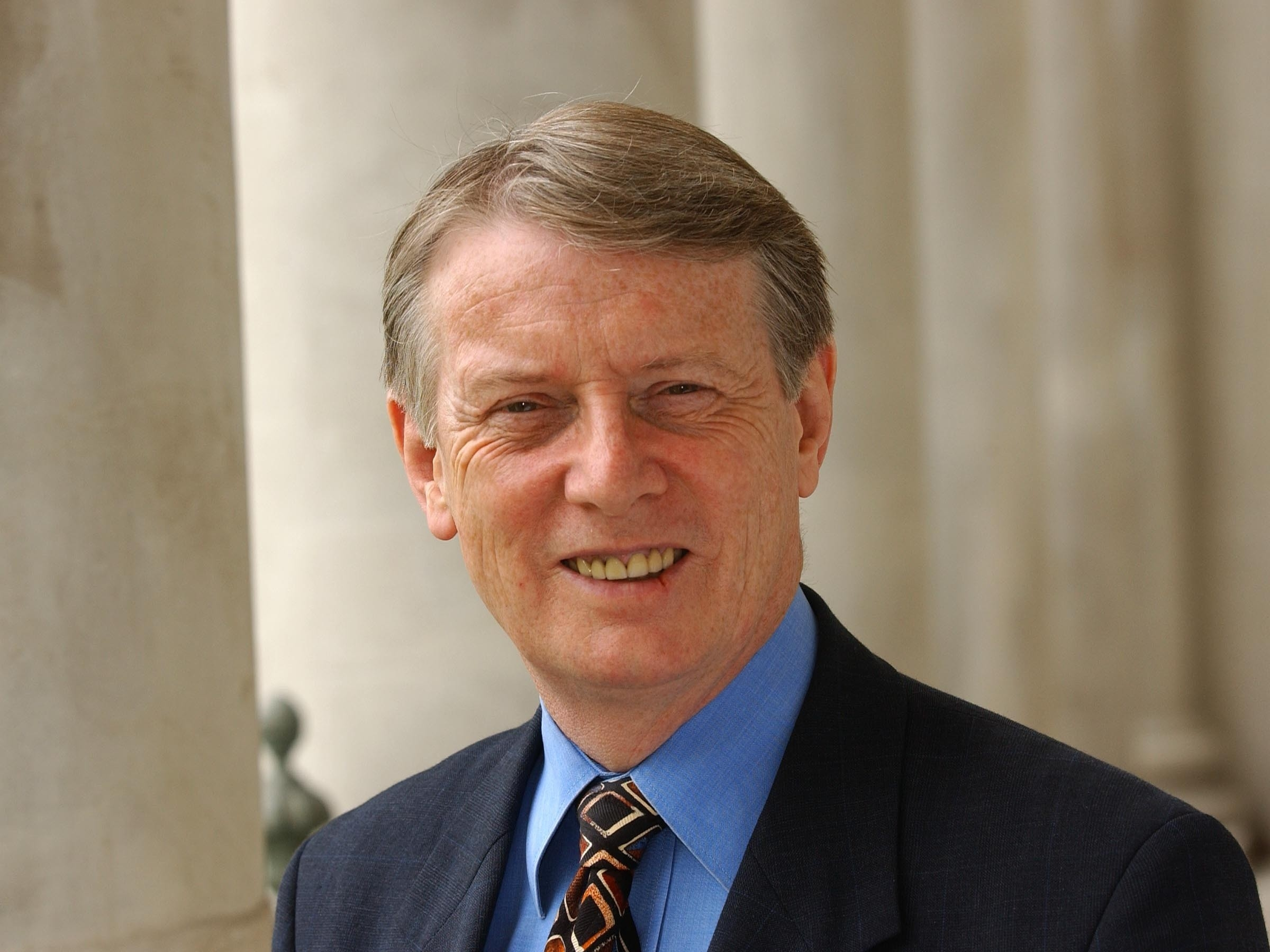 Alun Michael, Member of British Parliament (House of Commons) for Cardiff South and Penarth